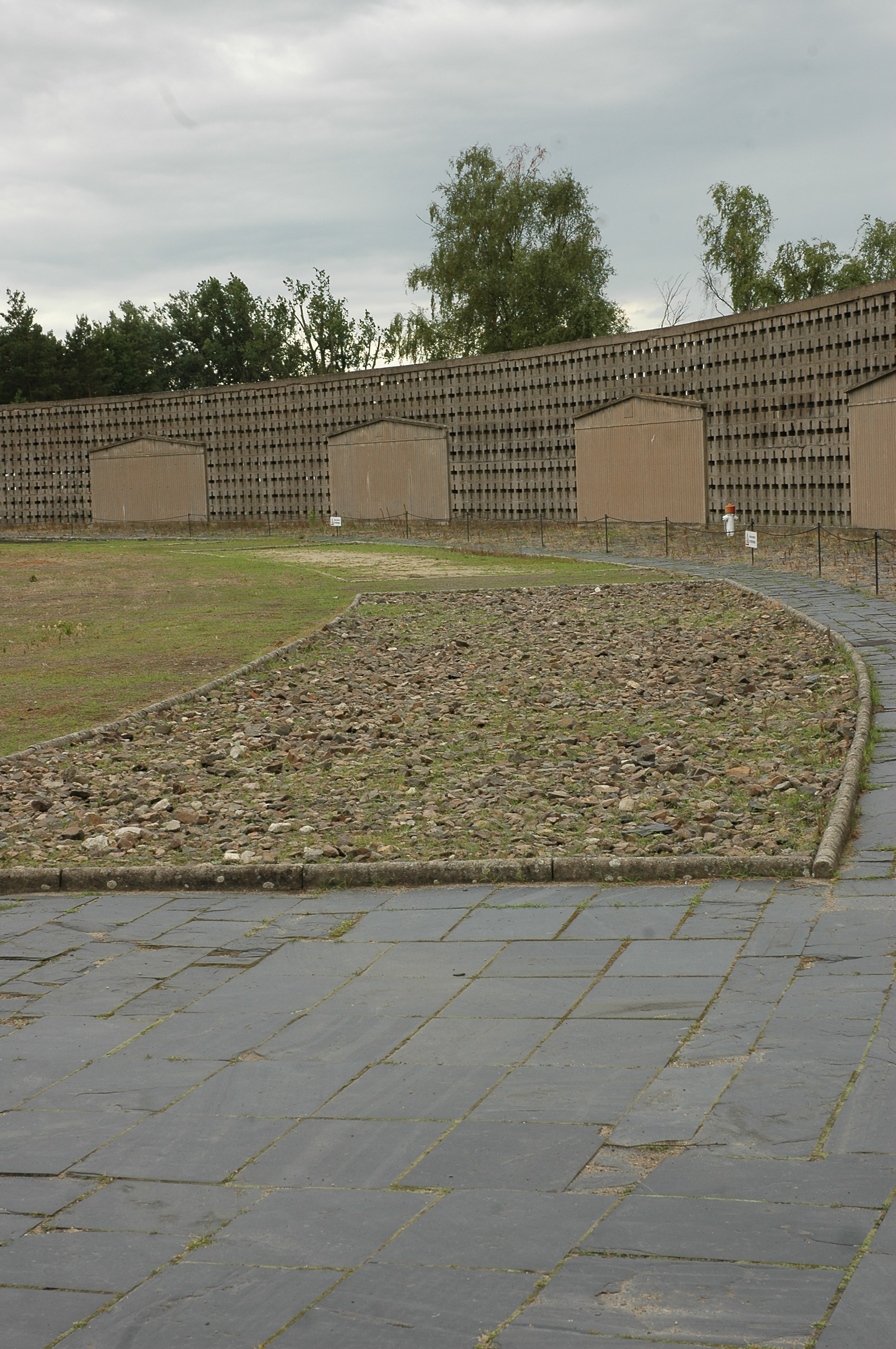 Test track for the shoerunner commando Test tråkk for skoprøve kommandoen